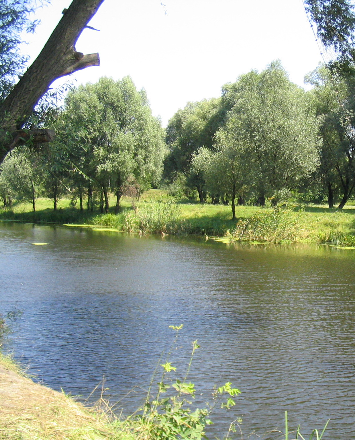 River Wowcha in Wowchansk, Ukraine